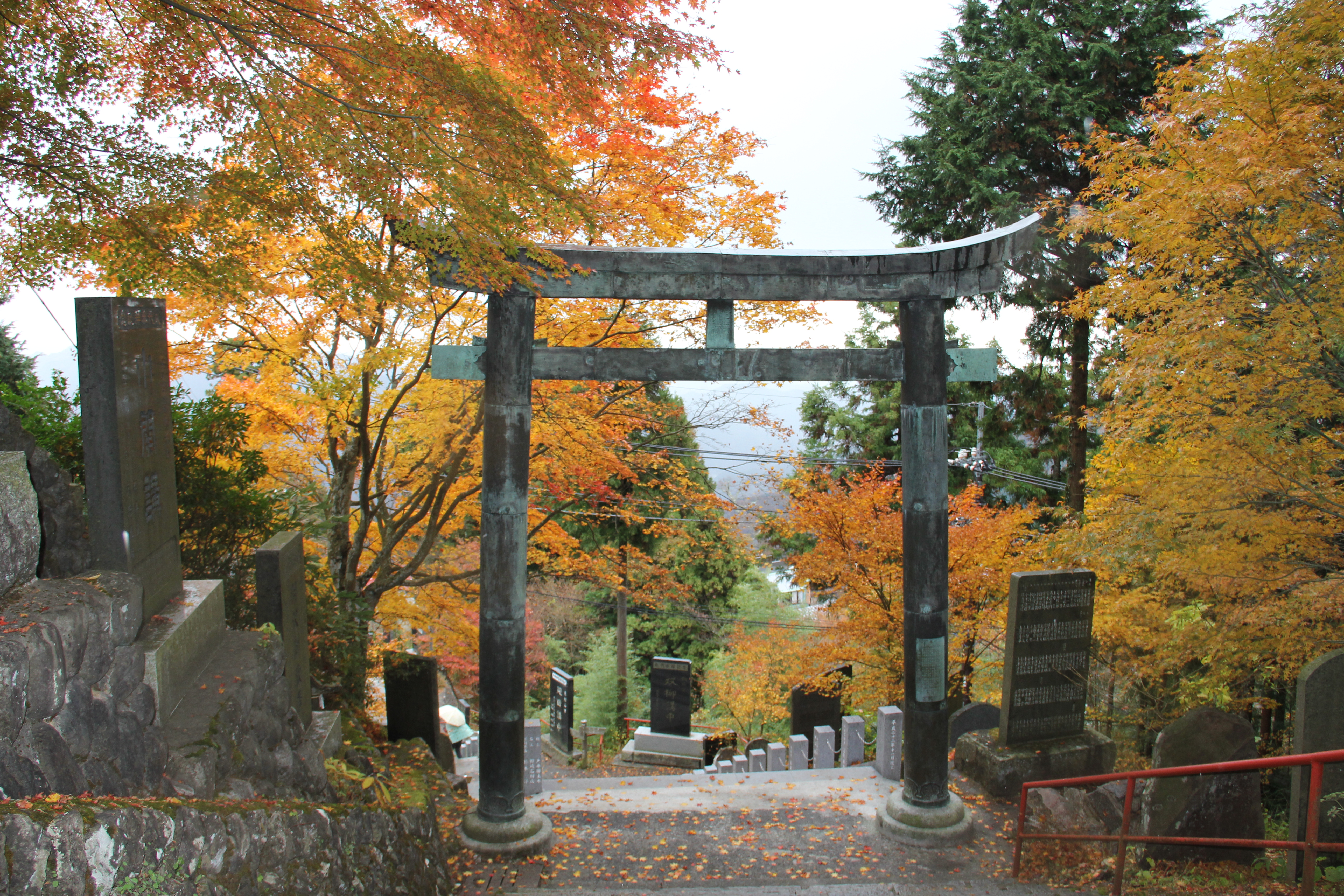 Mt.Mitake